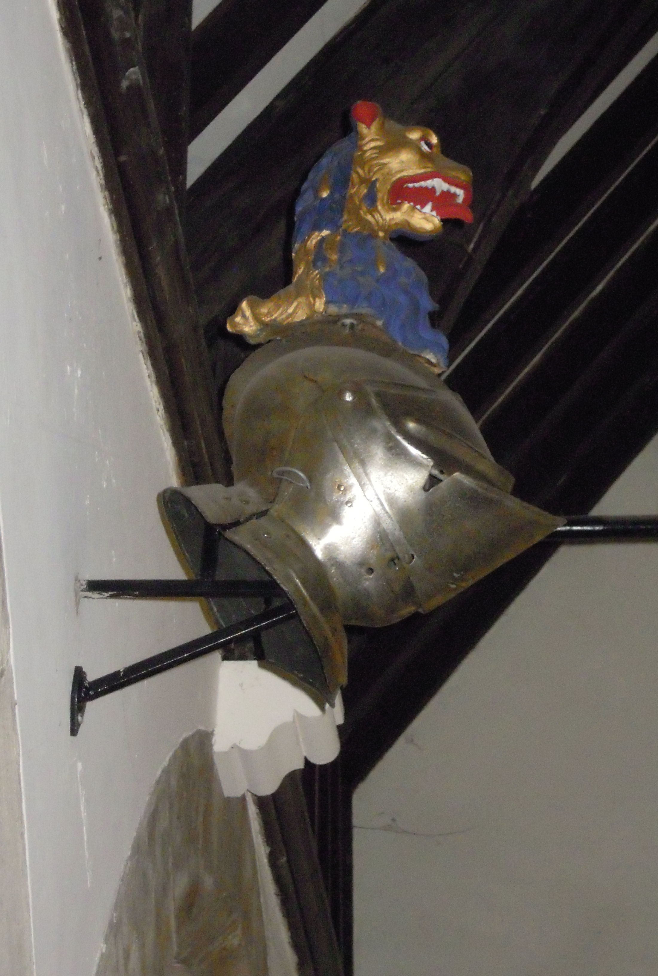 A Funerary Helm in the Church of St Michael the Archangel